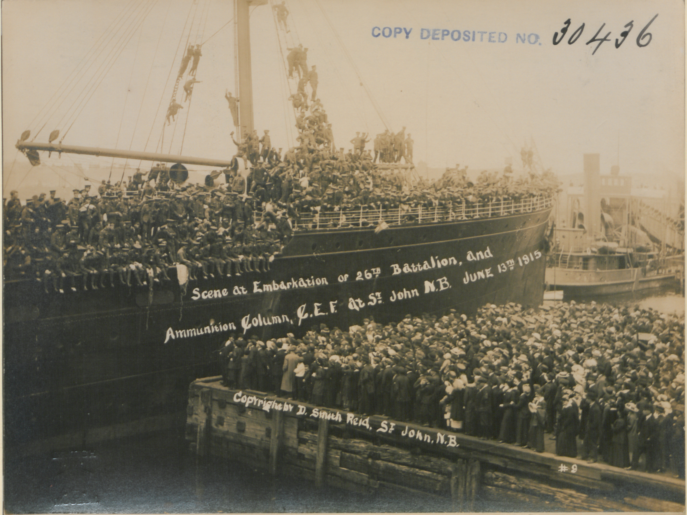 Original caption: “Scene at embarkation of 26th Battalion and ammunition column CEF, St. John, New Brunswick, June 13, 1915. No. 9.”